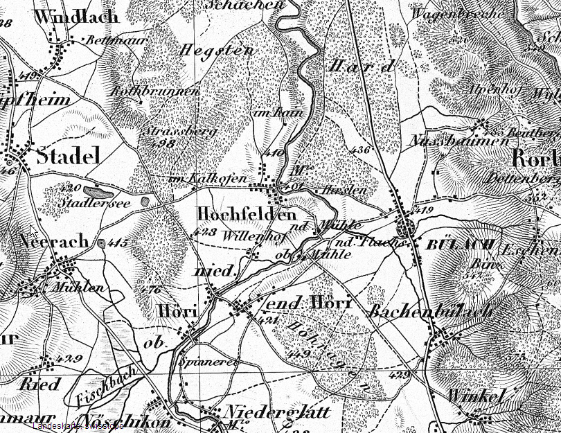 Hochfelden: Segment from the Dufour map Blatt 3, "Liestal, Schaffhausen", from 1869, Scale 1:100'000